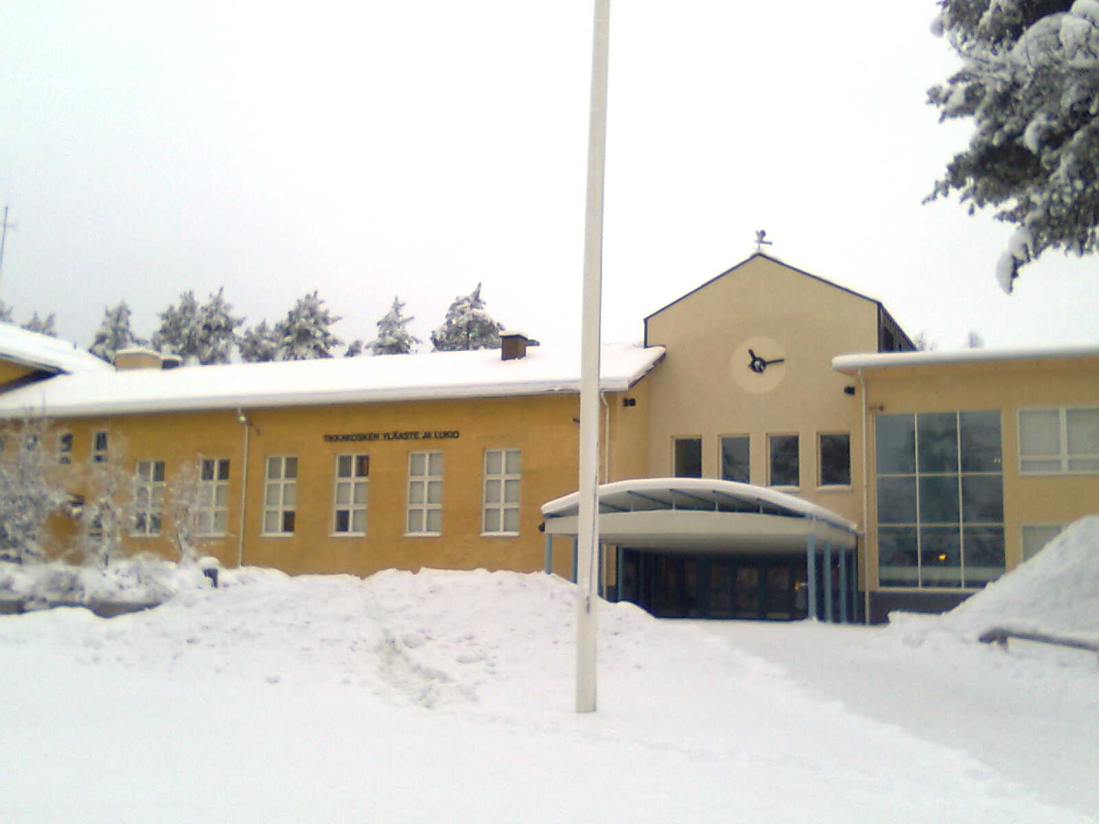 Tikkakoski school in Jyväskylä, Finland